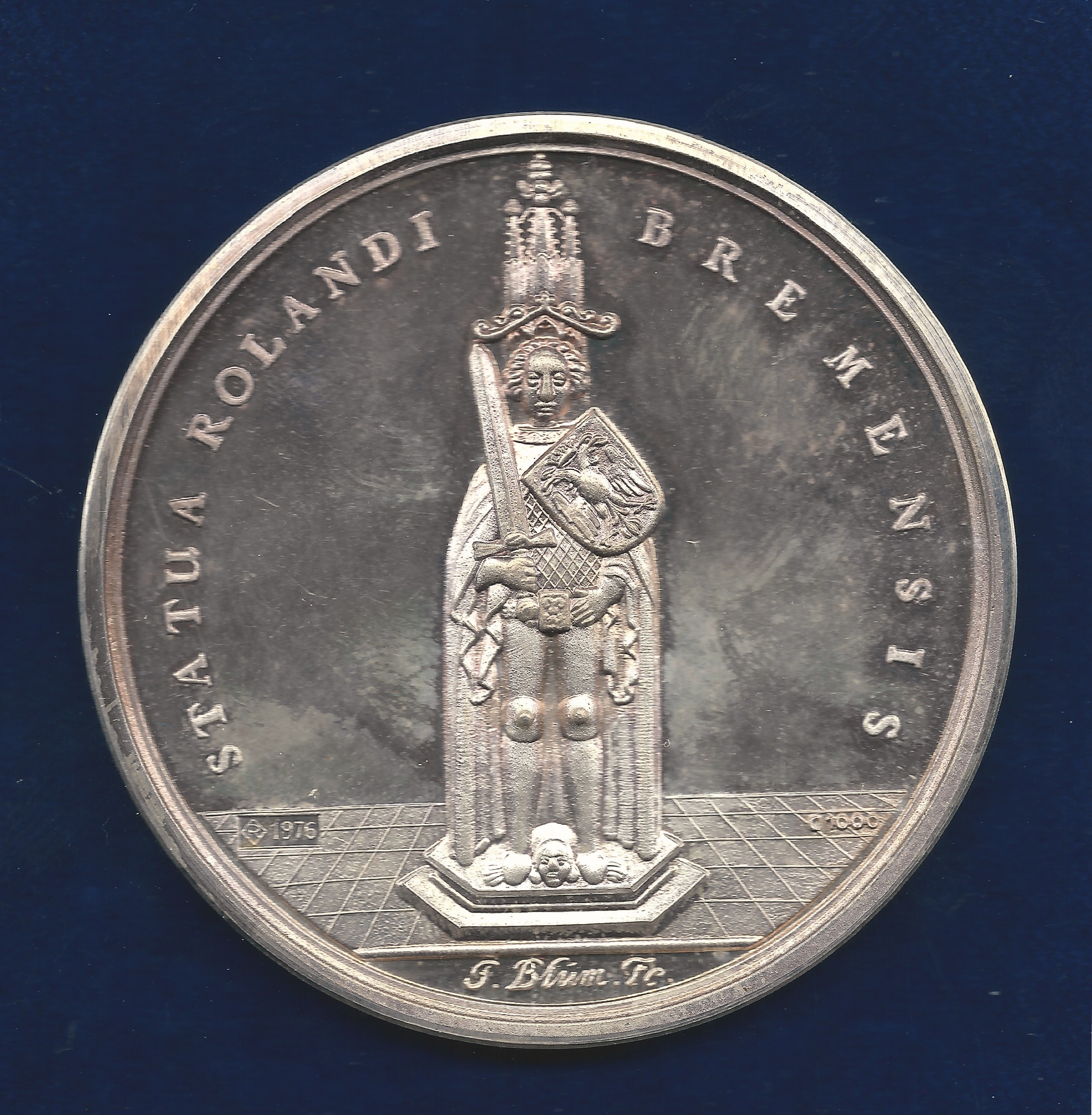 Medallion d. = 56 mm. 48.69 g Ag 1.000 Fine Silver Commemorating the Peace of Westphalia after the Thirty Years' War Curved above the Bremen Roland: "STATUA ROLANDI BREMENSIS"/ City view with a bridge over the river Weser with ships. Above 2 flying angels holding the shields of the emperor l., and of the Free City of Bremen r., and dividing 2 lines: "BREMA 1648". Curved above: "CONSERVA DOMINE HOSPITIUM ECCLESIÆ TUÆ". Forrer I, p. 201. According to legend, Bremen will remain free and independent for as long as Roland stands watch over the city. For this reason, it is alleged that a second Roland statue is kept hidden by the State of Bremen in the town hall's underground vaults, which can be quickly installed as a substitute, should the original fall. Today Bremen is one of the 16 States of the Federal Republic of Germany. Medallist: J. (Johann) Blum, about 1599 Bremen - after 1689 Condition: PROOF